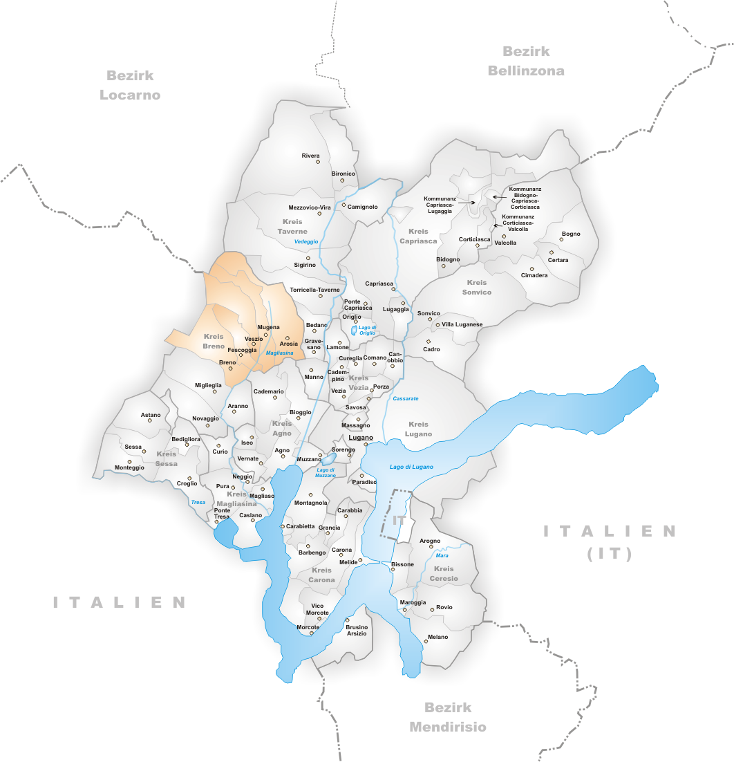 Municipalities of District Lugano until 2004